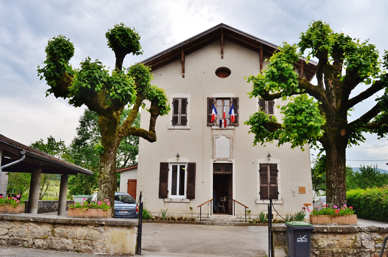 La Mairie